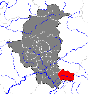 This map shows the area of the Gemeinde (municipality) Breitenau am Hochlantsch in the Bezirk (district) Bruck an der Mur, Styria, Austria.